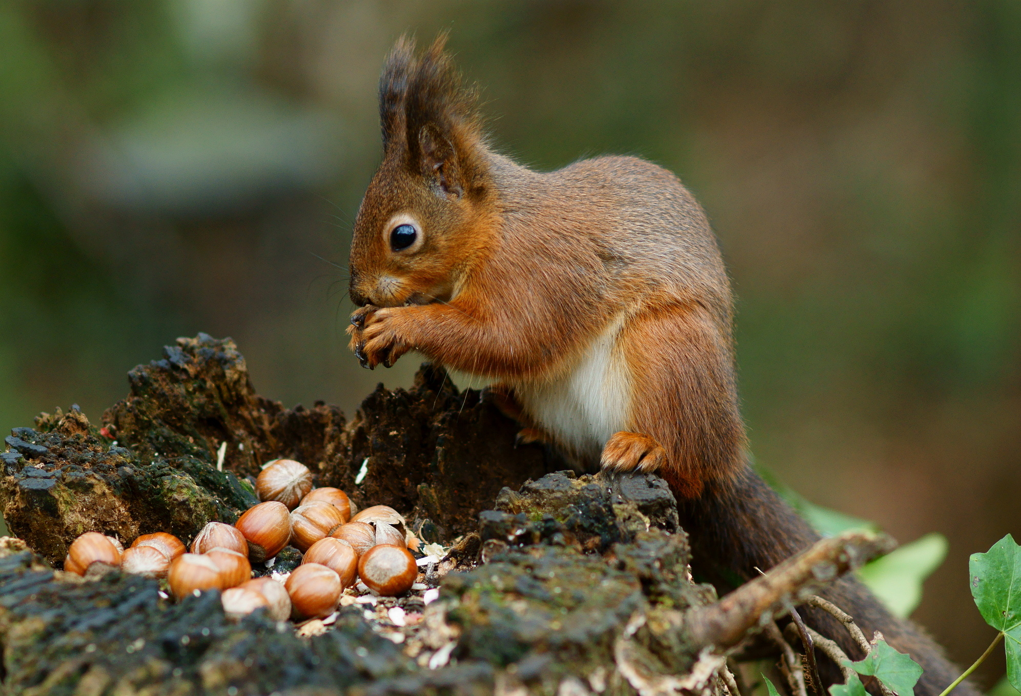 At the Alverstone Mead Nature Reserve, the squirrel can't believe his luck; Santa has brought a supply of hazelnuts.